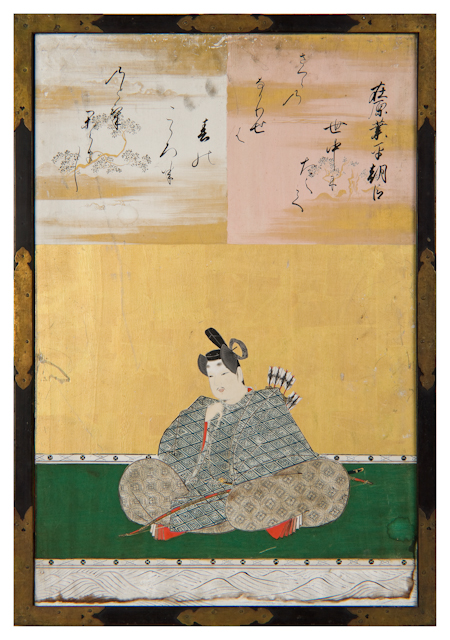 Sanjūrokkasen-gaku (Thirty-six Poetry Immortals framed picture) #7: Ariwara no Narihira Asomi